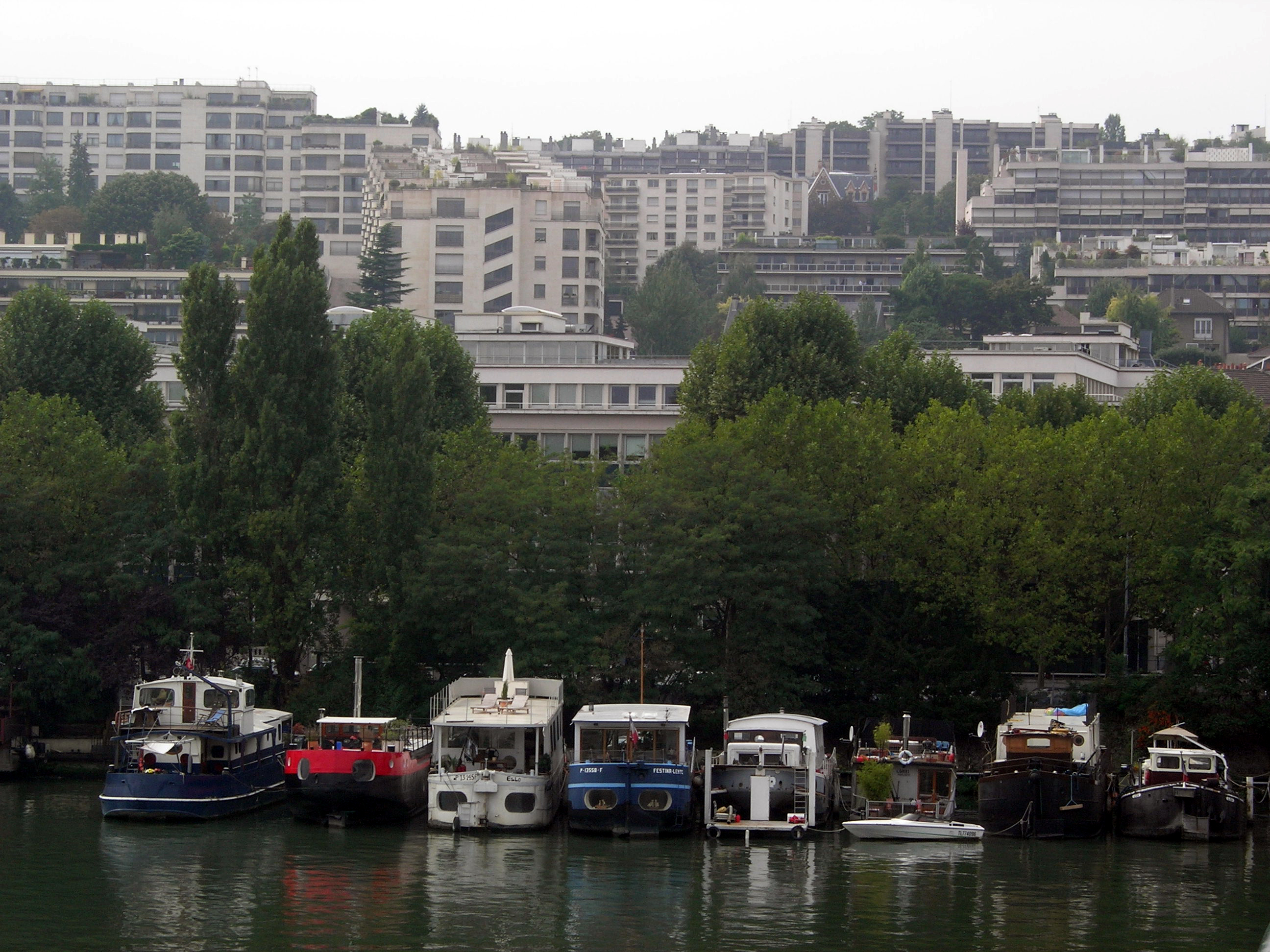 Description =La Seine à Saint-Cloud Source =Photo taken by Remi Jouan Date =Septembre 2006 Author =Remi Jouan